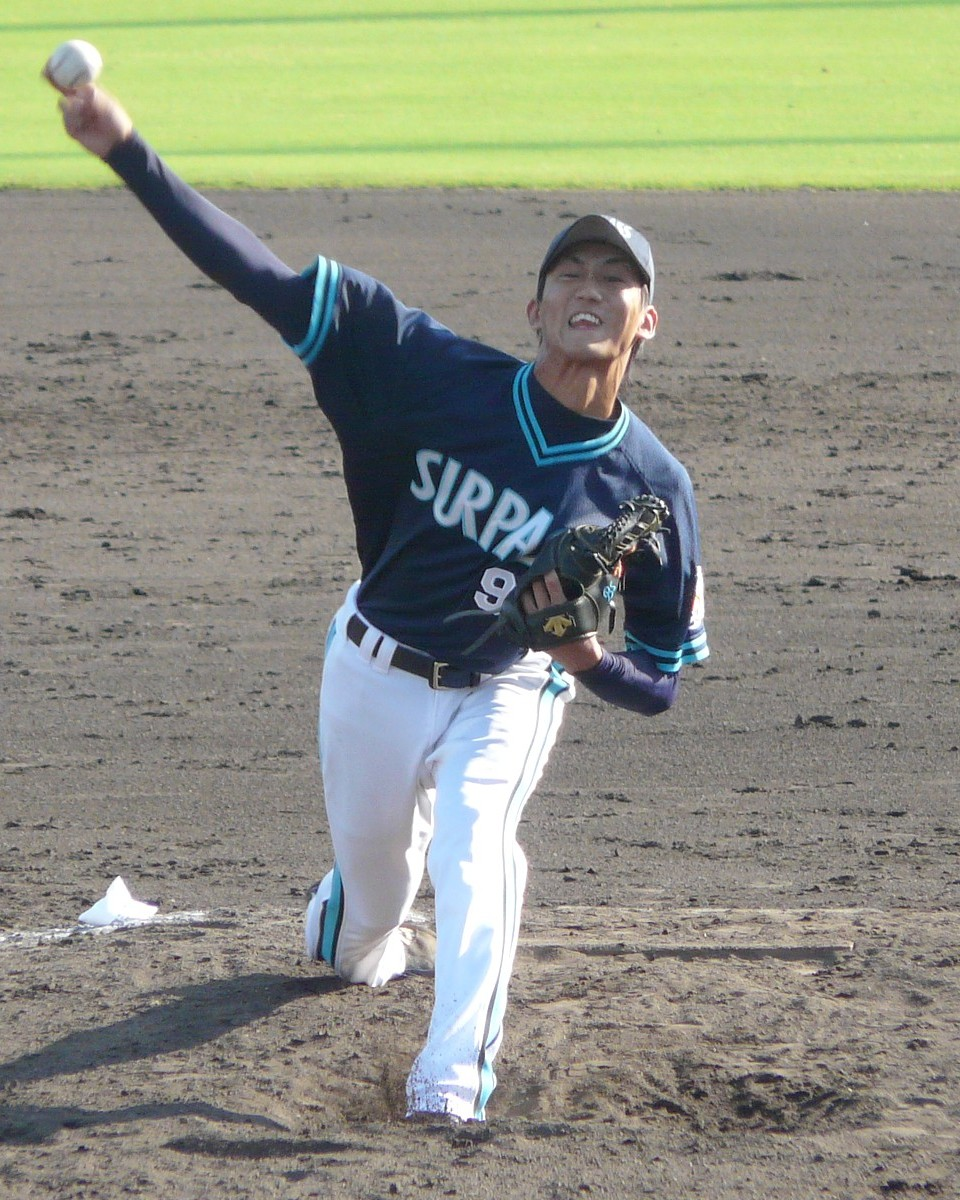 Tatsuya Kajimoto